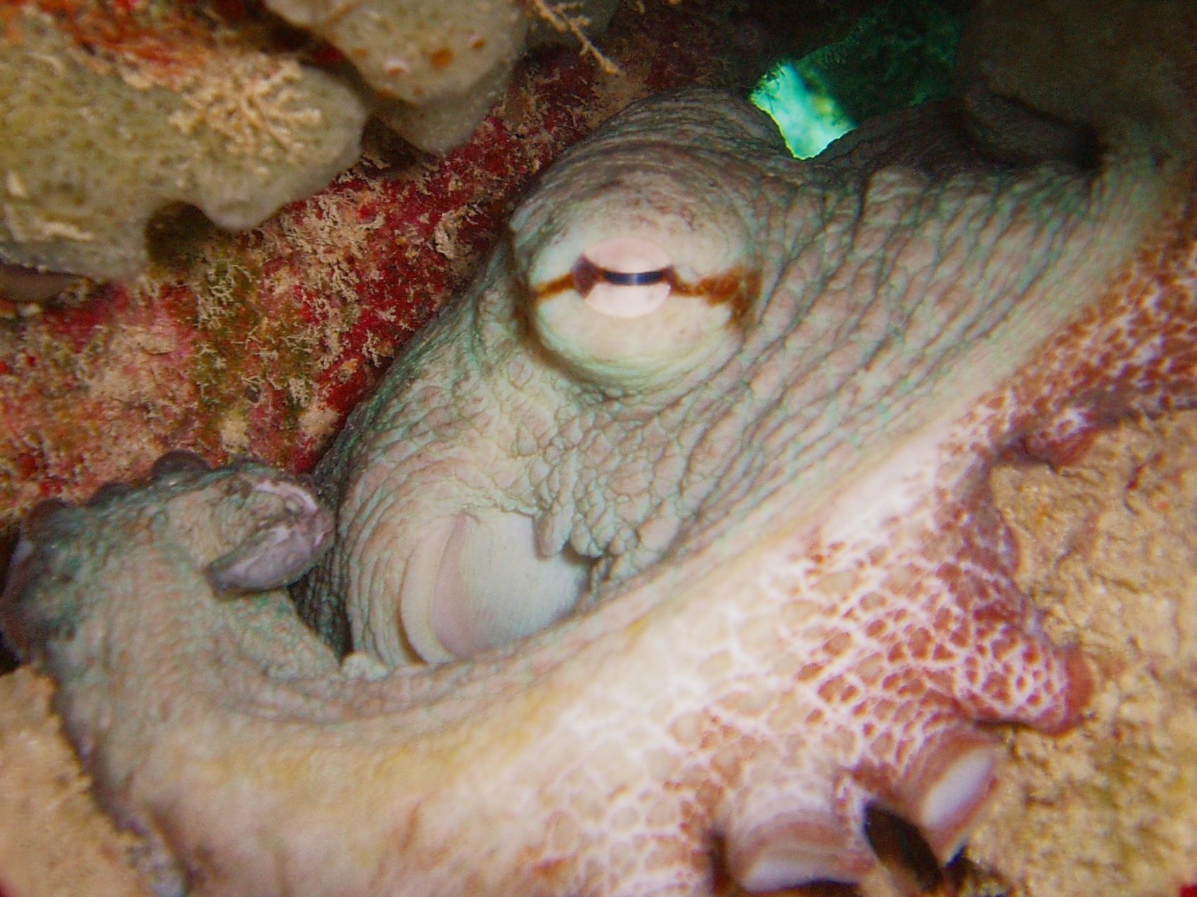 Eye of common octopus. U. S. Virgin Islands, Coki Beach, St. Thomas. 2004.